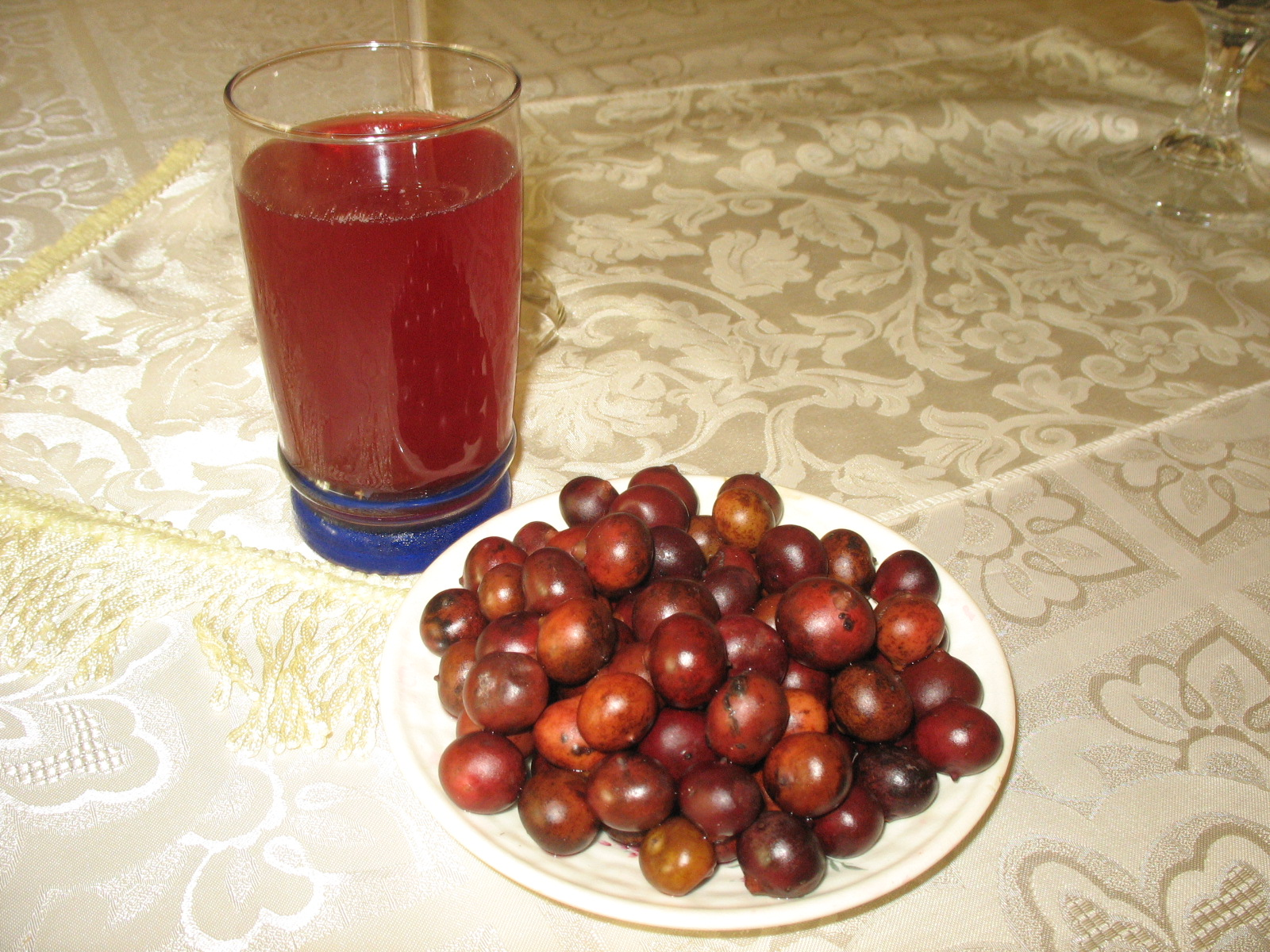 Corozos